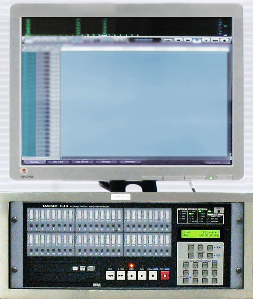 TASCAM X-48 48-track Hybrid Hard Disk Workstation Part of the picture has been blurred to avoid non-free screenshot conflicts.